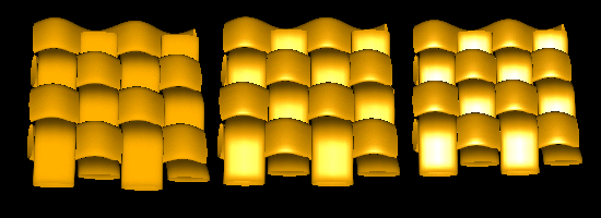 Shininess parameter